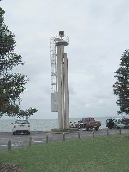 The concrete light that replaced the wooden hexagonal lighthouse at Cleveland Point.